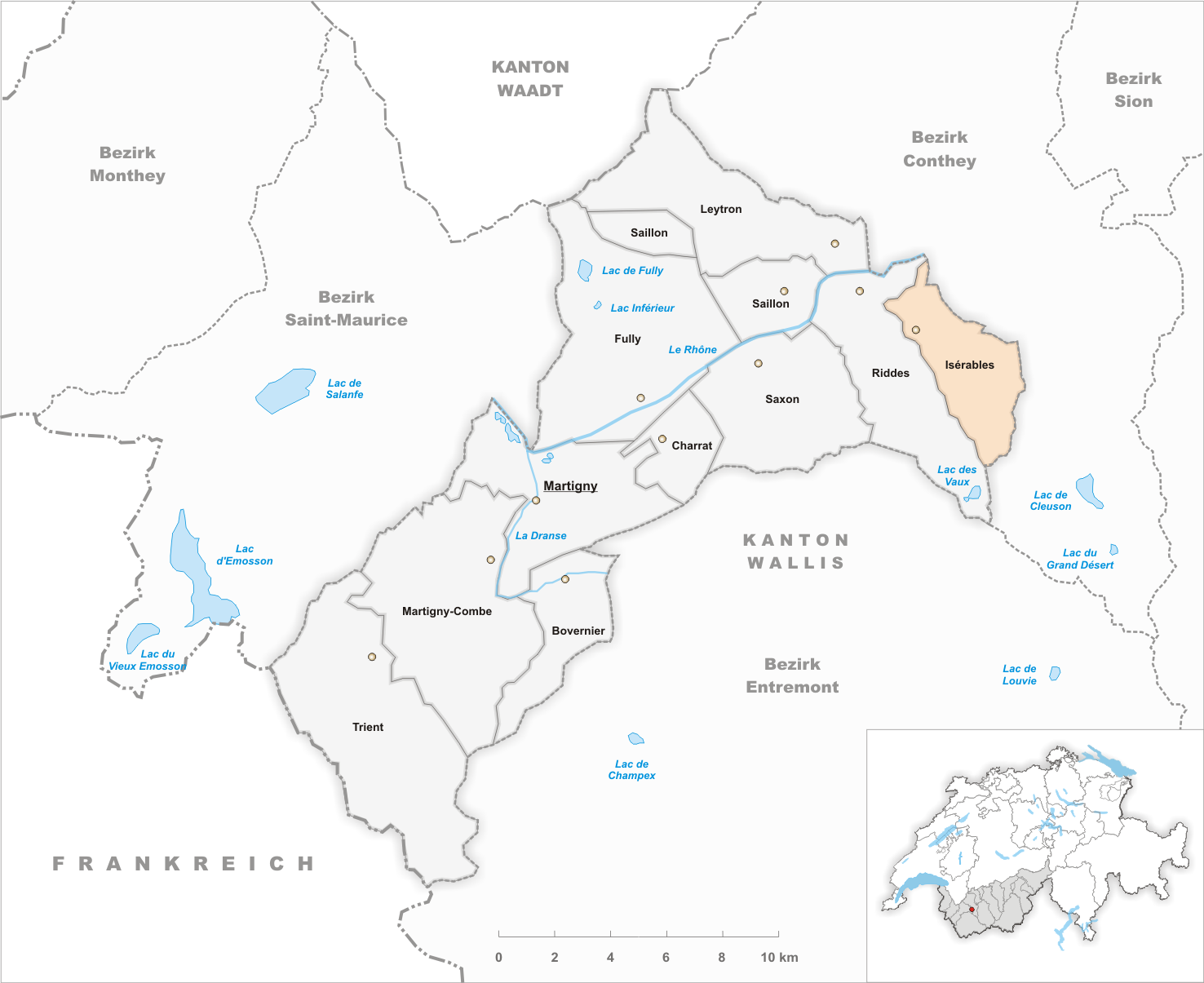 Municipality Isérables